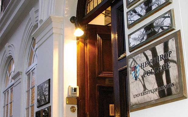 Heythrop College